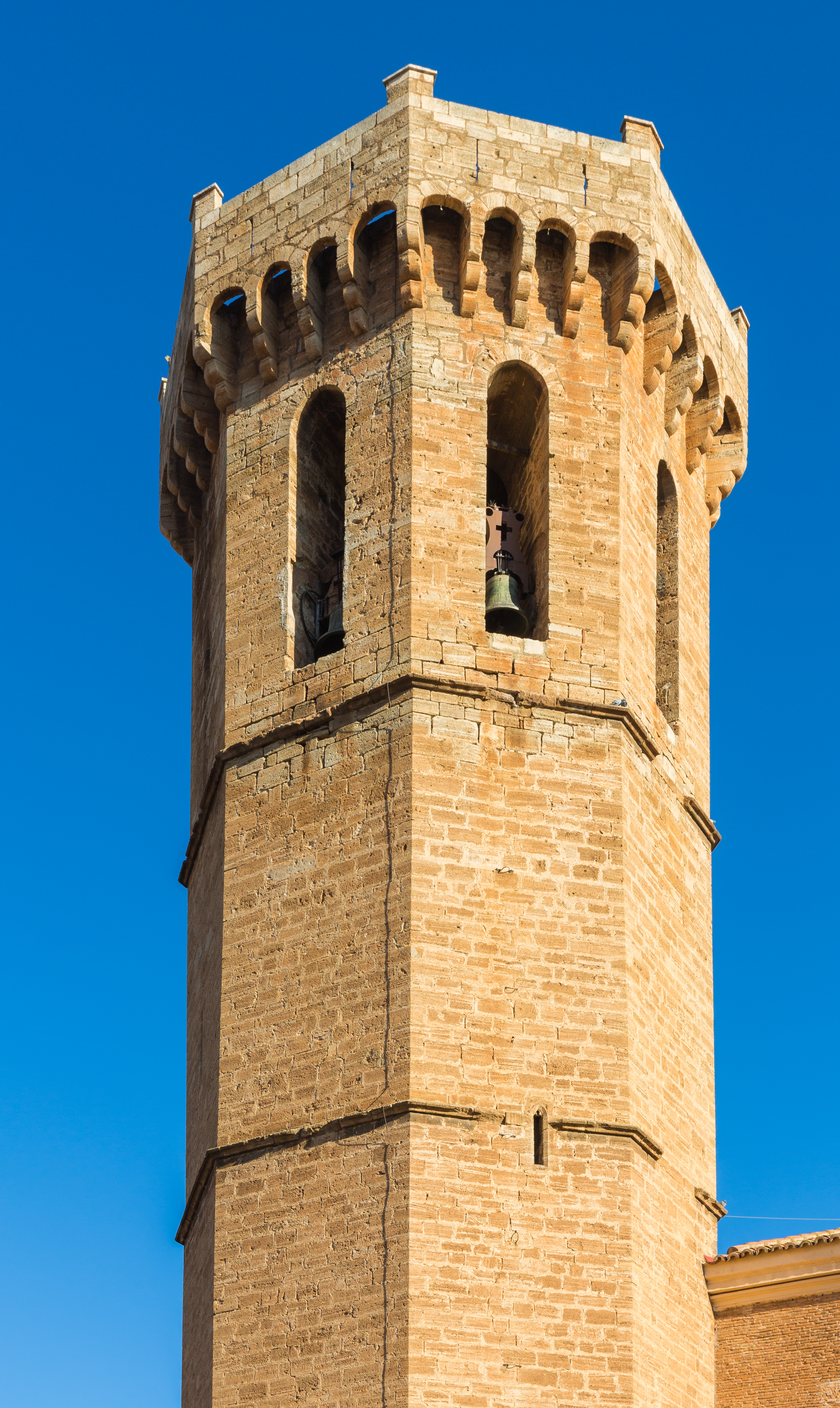 Church of the Assumption, Cariñena, Spain